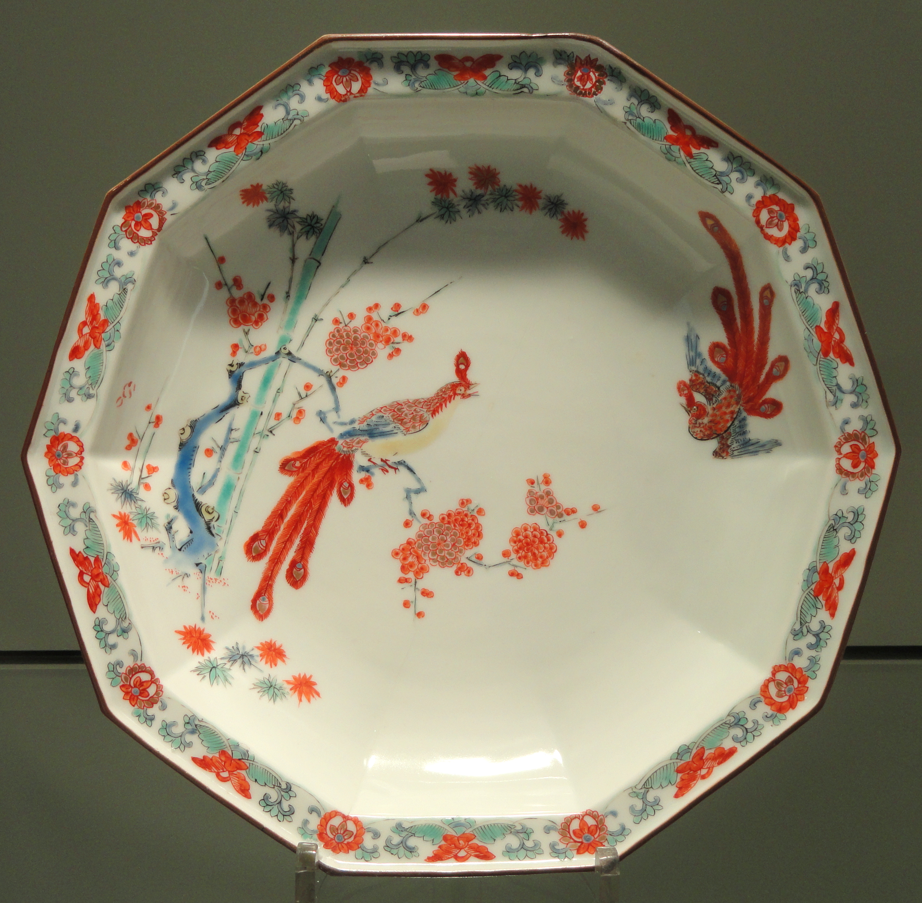 Exhibit in the Gardiner Museum, Toronto, Ontario, Canada. This artwork is in the public domain because the artist died more than 70 years ago.